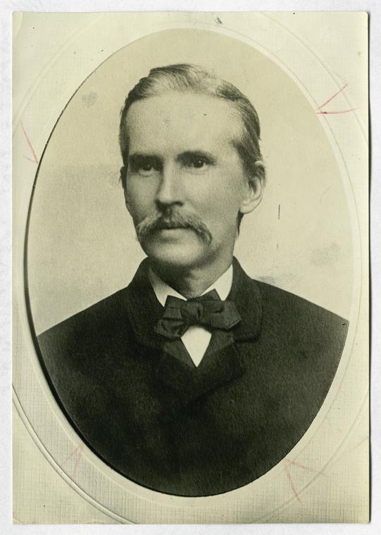 The Southern US-American poet Paul Hamilton Hayne (1831-1886)